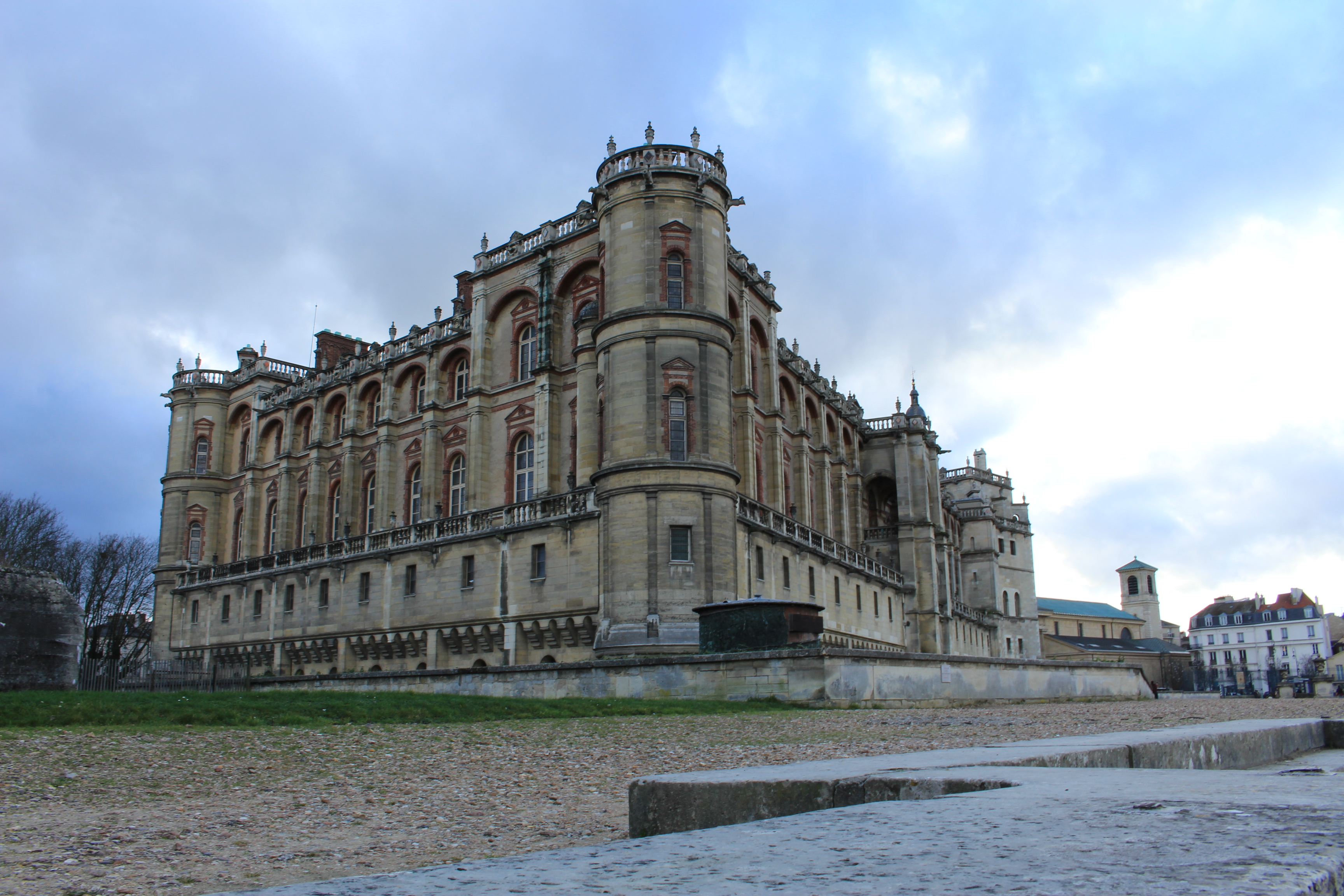 The Old Castle (Château Vieux) of Saint-Germain-en-Laye (France).